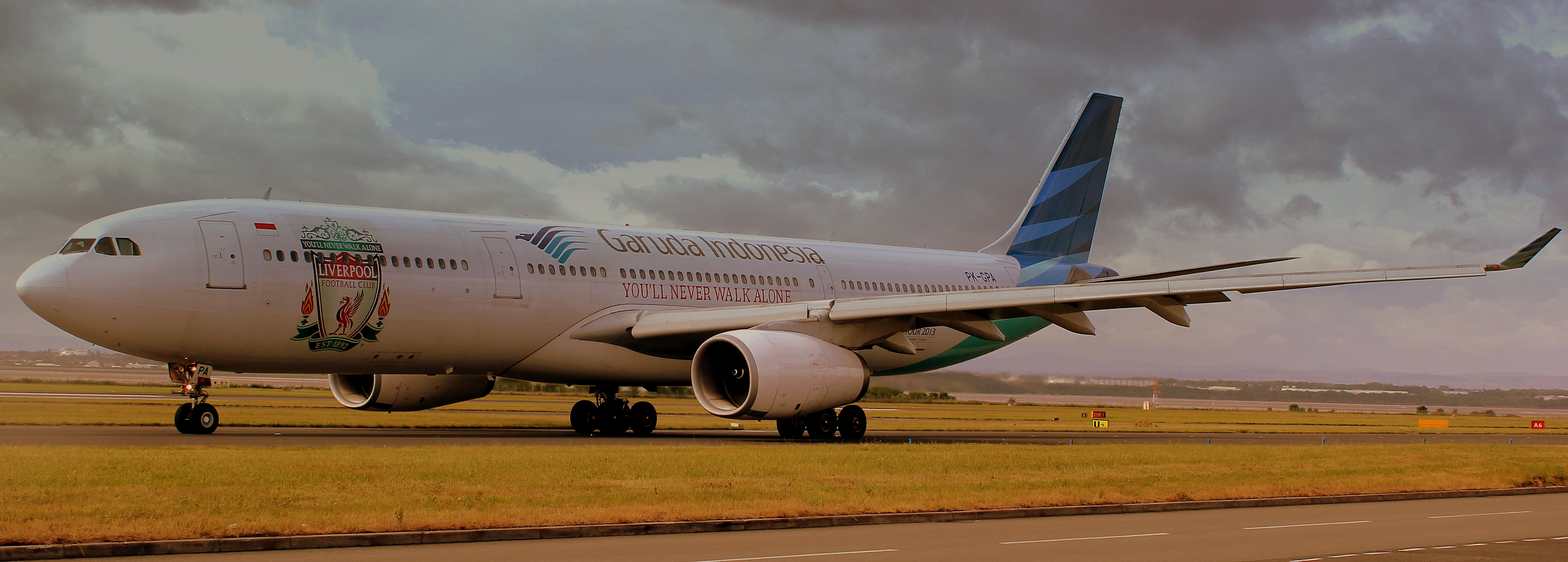 Garuda Indonesia Airbus A330-300 @ Liverpool (july 2013).